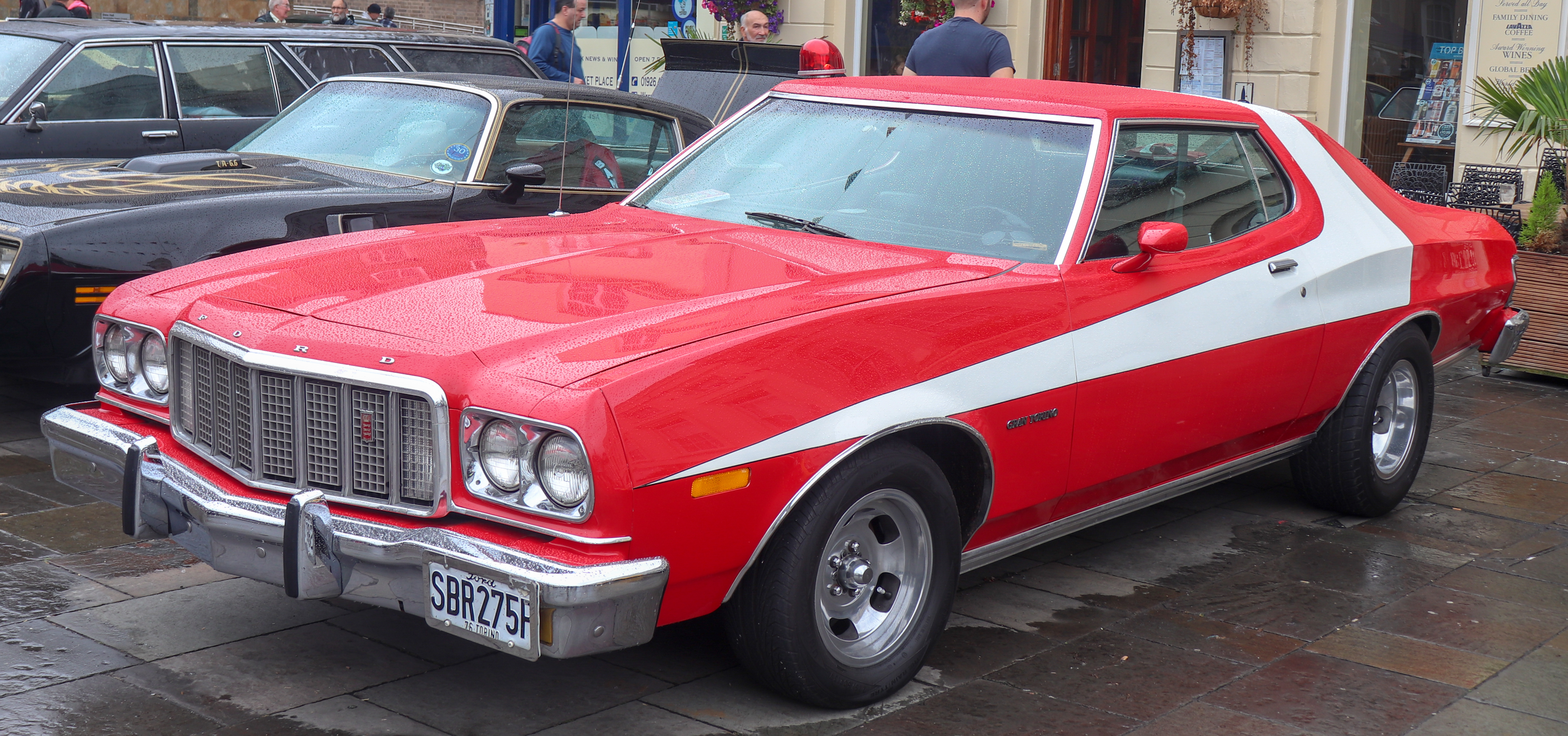 1976 Ford Gran Torino (Starsky and Hutch) 5.7 Taken at the 2018 Warwick Classic Car Show